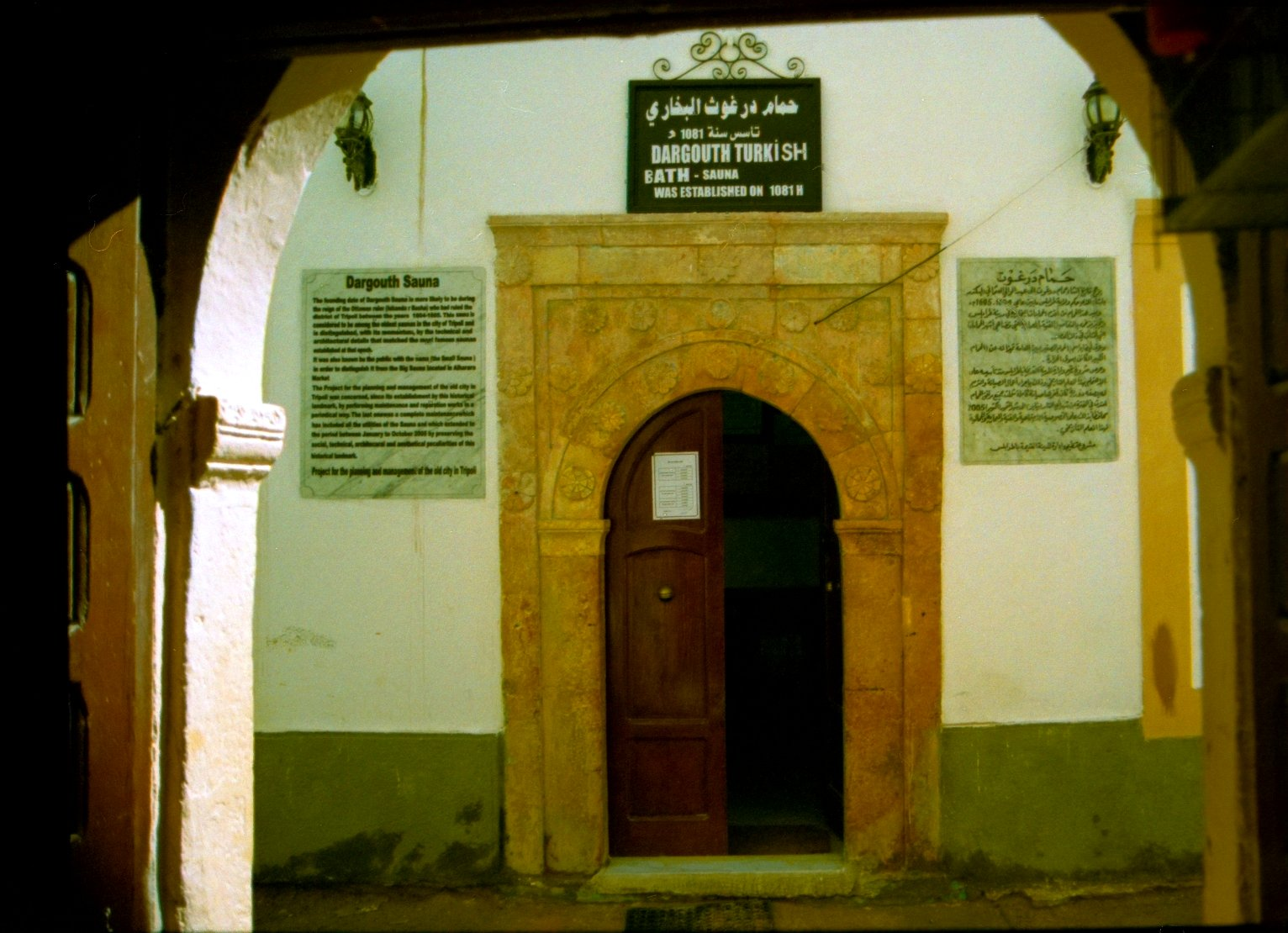 Darghouth Turkish Bath facade and entrance — Tripoli Old Town (medina), Libya.